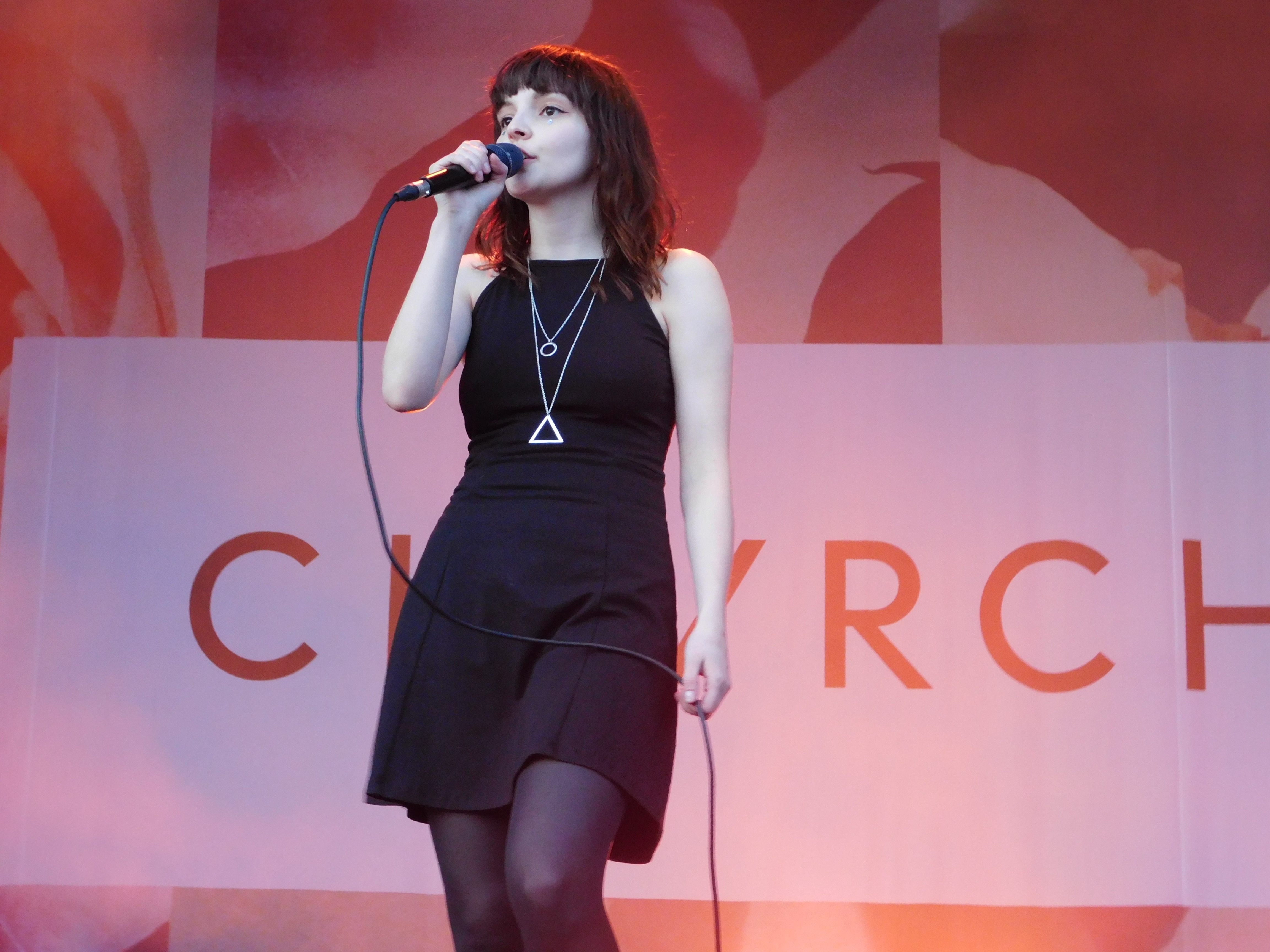 Lauren Mayberry of CHVRCHES performs at Ottawa Bluesfest on July 15, 2015